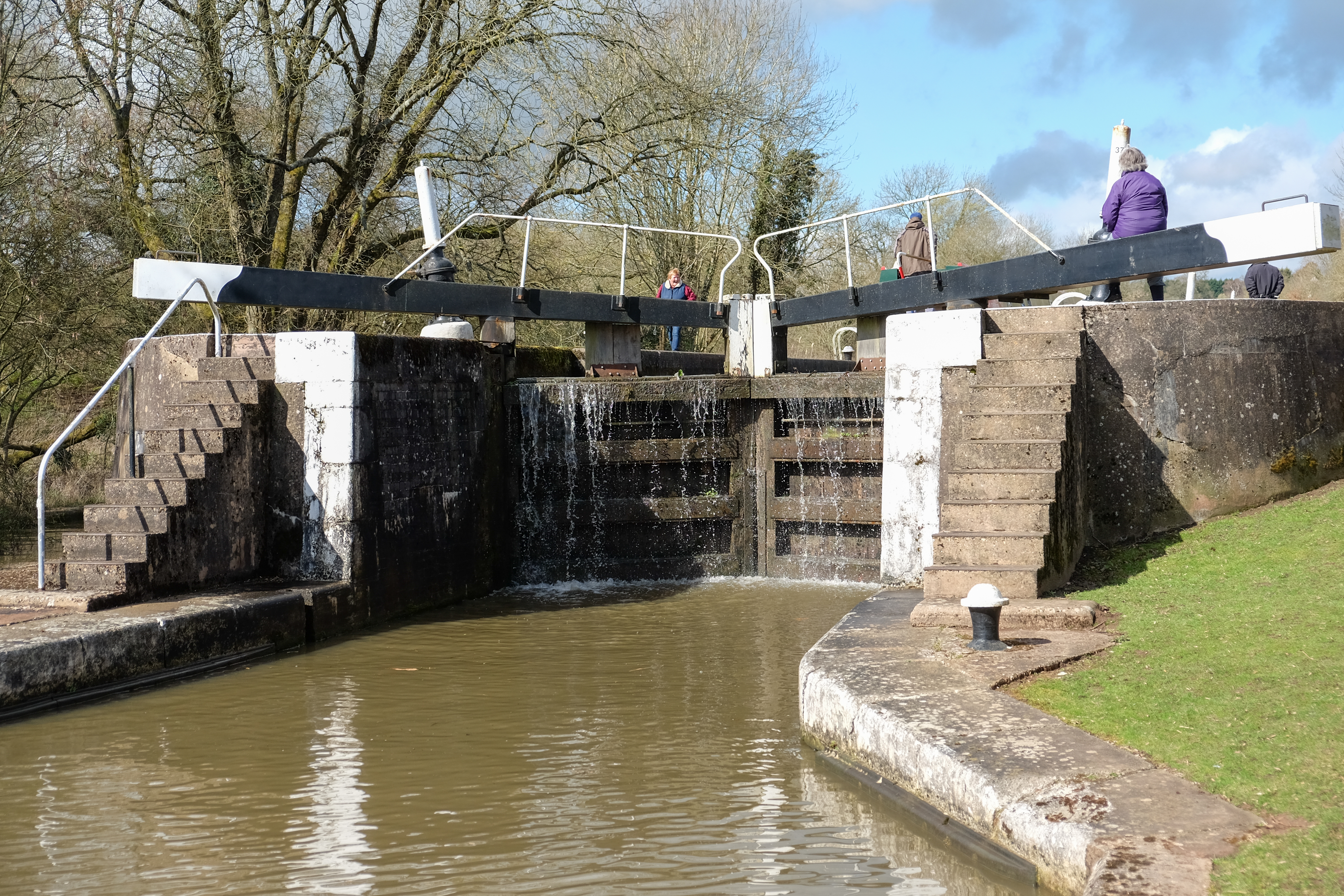 A lock in the Hatton Flight on the Grand Union Canal in Warwickshire.